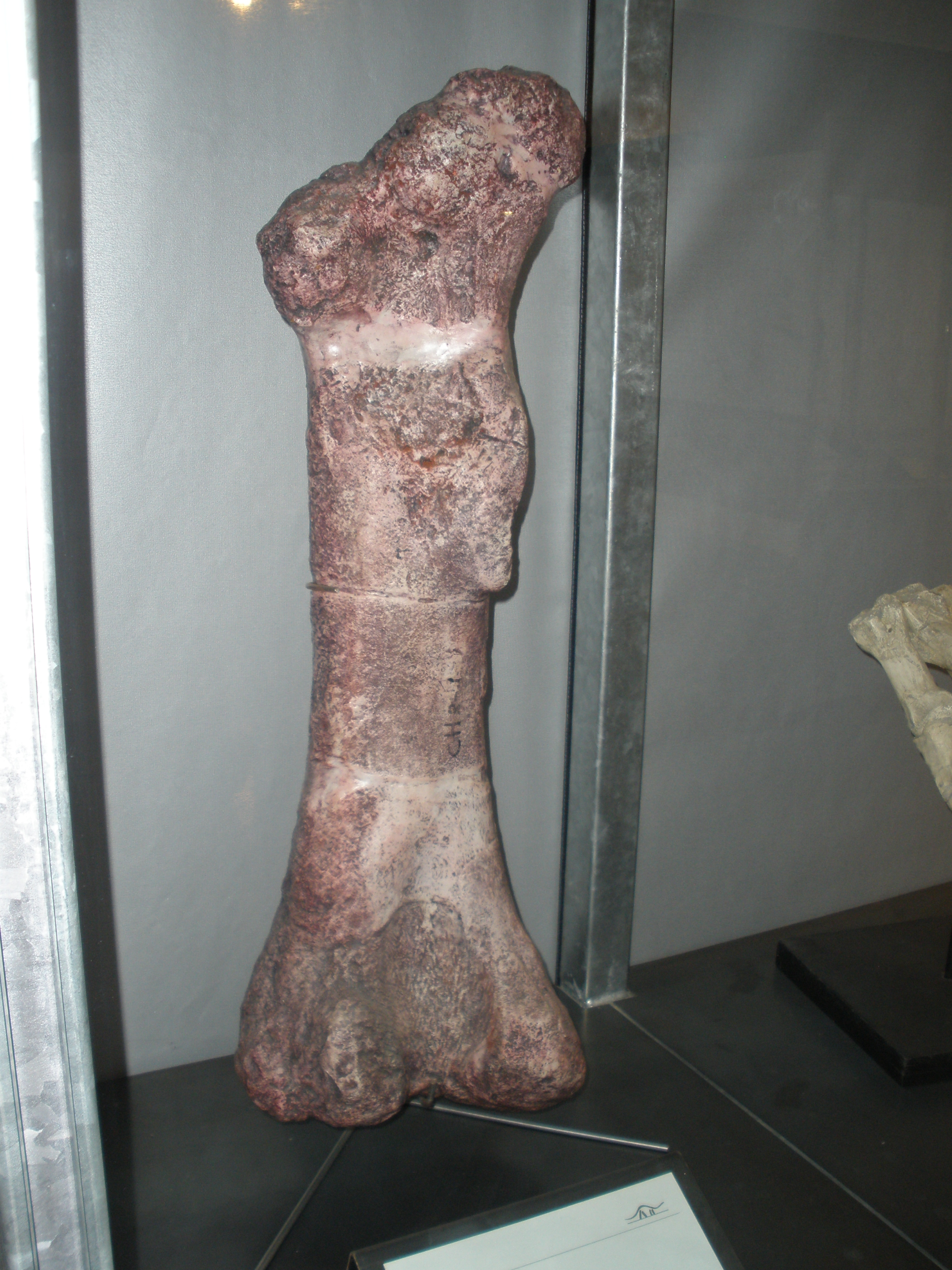 fossil of Isanosaurus attavipachi, an extinct sauropod